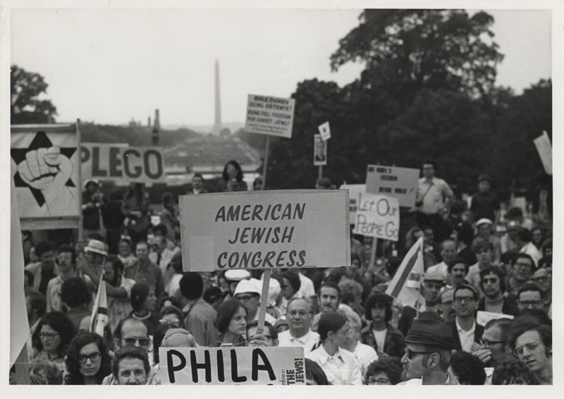 Title: Freedom Assembly for Soviet Jews, Washington, D.C., 1973 Photographer: unknown Date: 1973 Medium: Black and white photograph Repository: American Jewish Historical Society Parent Collection: American Jewish Congress records, undated, 1916-2006 (I-77) Call Number: I-77, Box 738, Folder 25, Photograph 014 Persistent URL: Rights Information: No known copyright restrictions; may be subject to third party rights. For more copyright information, click here. The Guide to the Records of American Jewish Congress is now available online, including hyperlinks to many more photographs. See more information about this image and others at CJH Digital Collections. To inquire about rights and permissions, or if you have a question regarding the collection to which the image belongs, please contact the Reference Department of the American Jewish Historical Society by email. Digital images created by the Gruss Lipper Digital Laboratory at the Center for Jewish History.